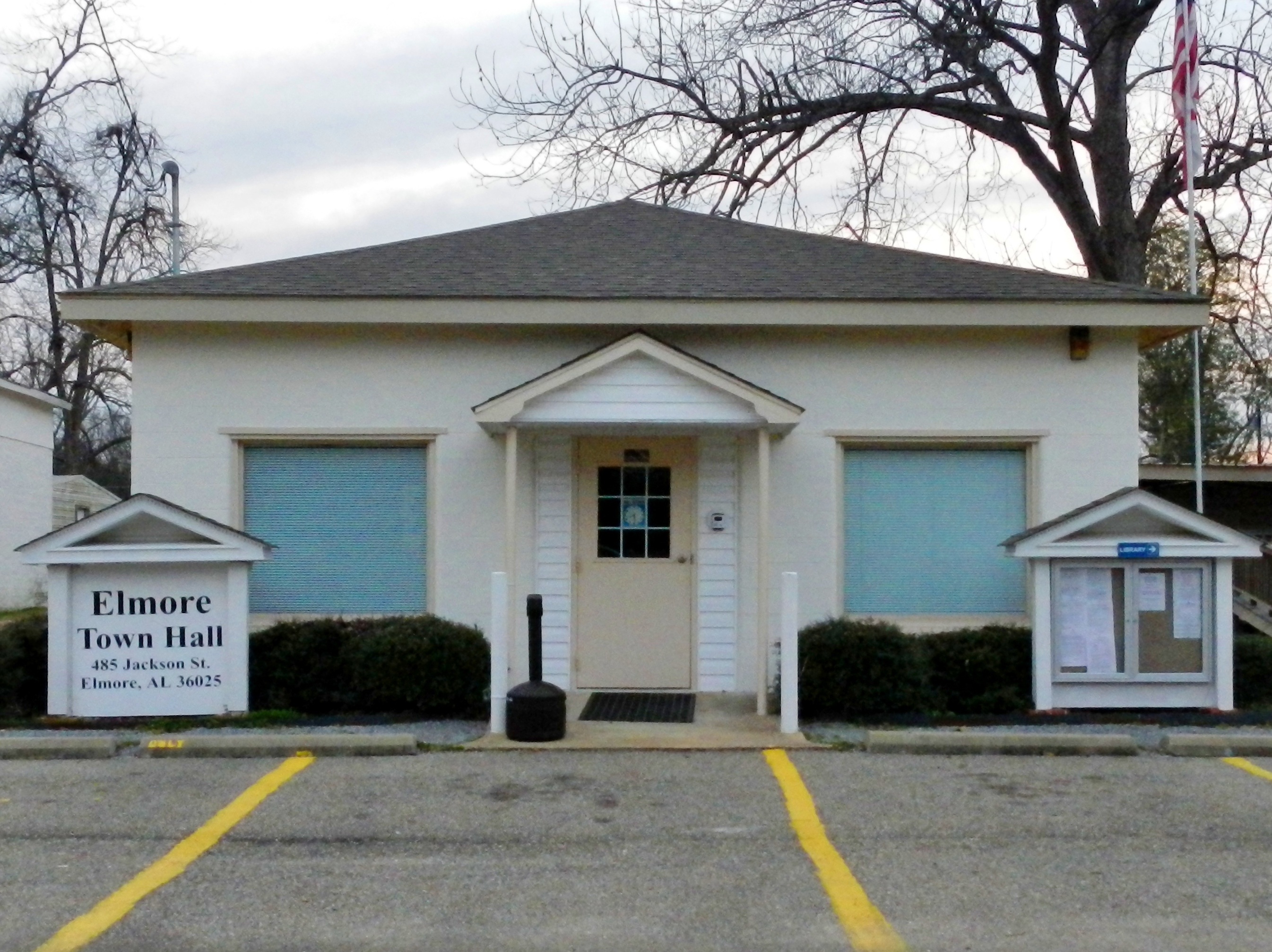 This is a photograph of the town hall in Elmore, Alabama.